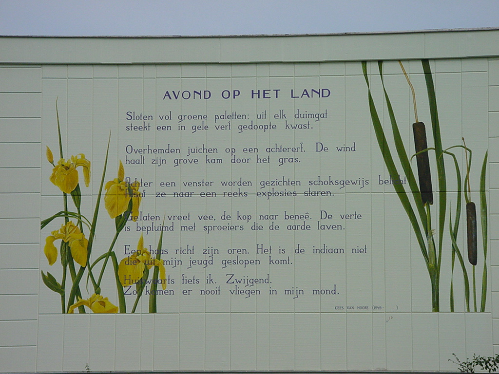 Wallpoem of 'Country evening' by Cees van Hoore, Kiekendiefhorst 1, Leiden